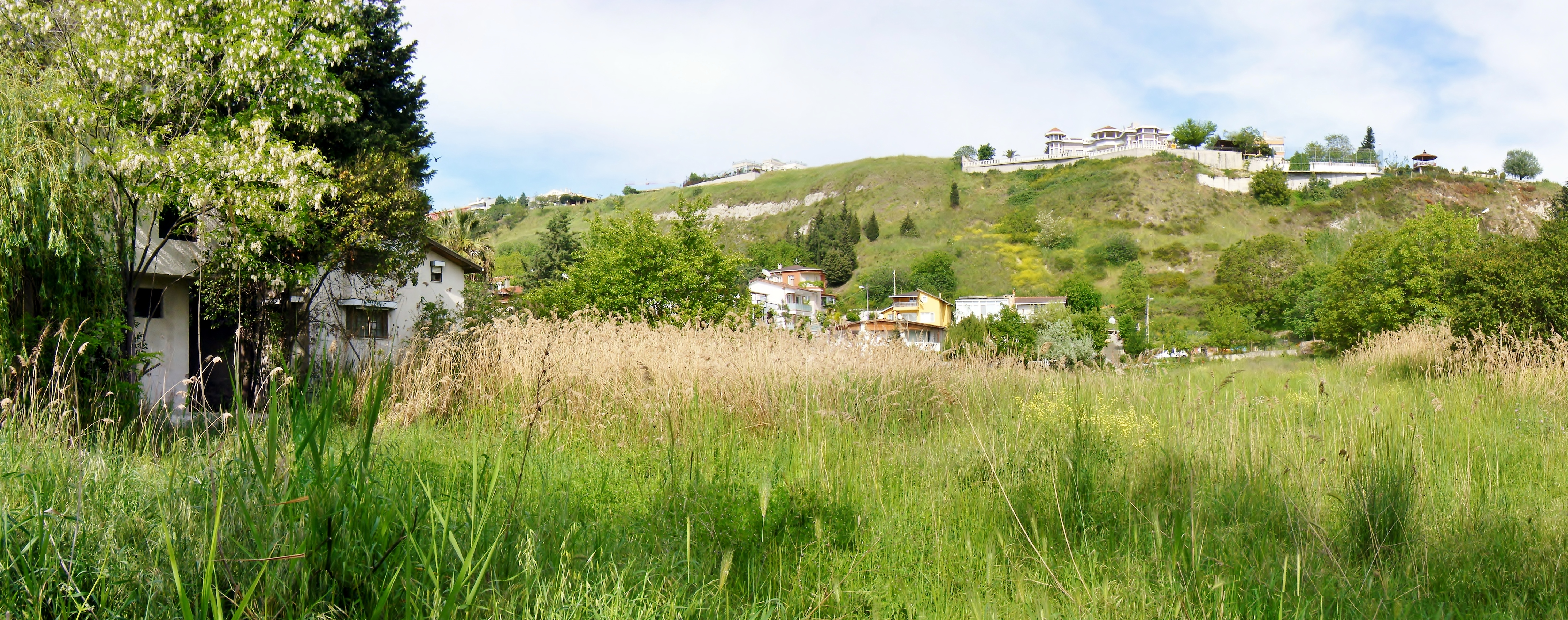 Beylikduzu district of Istanbul. Istanbul natural spots, beylikdüzü nature, meadows, green fields, peaceful green place in istanbul.